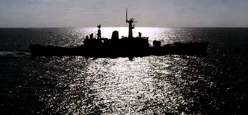 Bacchante from Wasp Mediterranean Dec 76